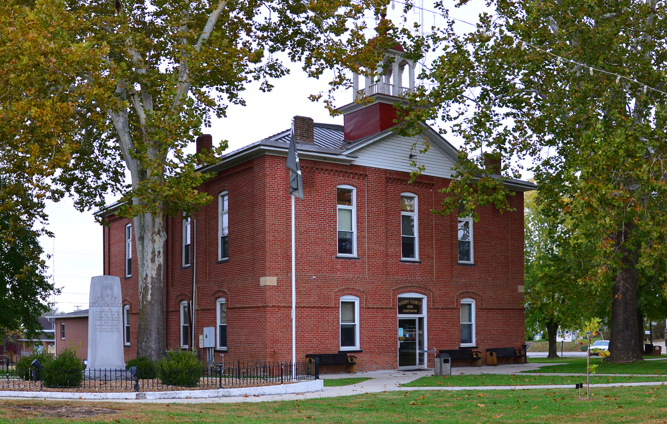 courthouse in built in 1896